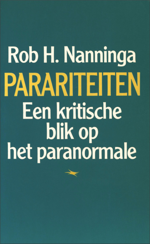 Book cover of Paranormal Oddities – A Critical View of the Paranormal (1988) by Dutch skeptic Rob Nanninga.